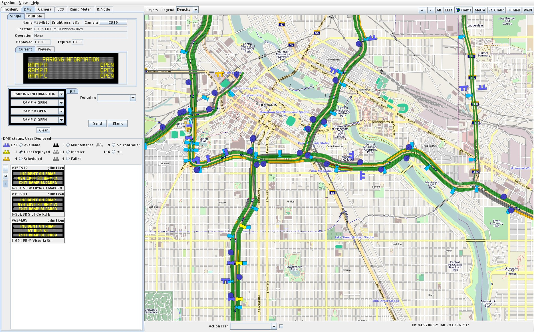 IRIS screenshot supplied by Mn/DOT for Wikipedia, uploaded by Michael Darter. This map may be incomplete, and may contain errors. Don't rely solely on it for navigation.